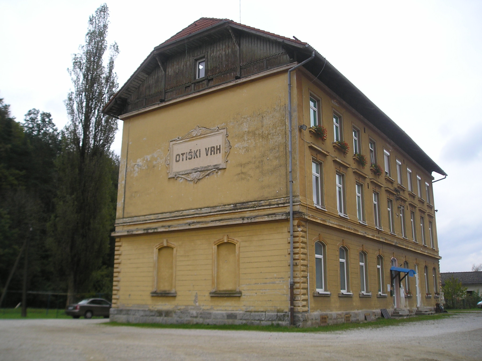 Railway station in Otiški Vrh, Dravograd municipality, Slovenia